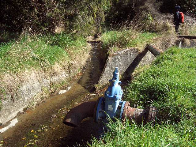 Headwater of Water of Leith enters a concrete diversion race around Sullivan's Dam, near Dunedin, New Zealand.